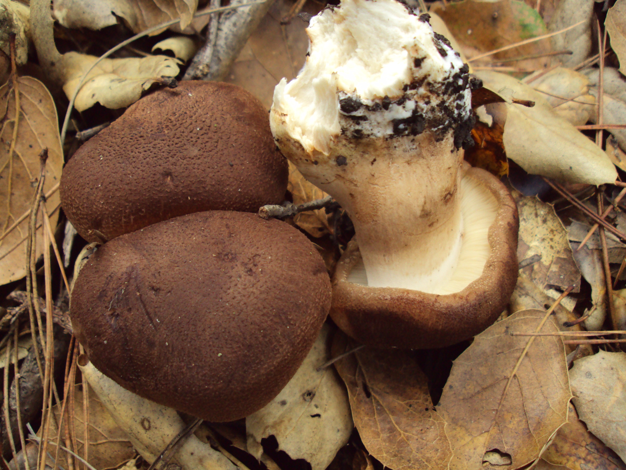 Fruit bodies of the agaric fungus Tricholoma imbricatum (Fr.) P. Kumm. Specimens from San Pablo Reservoir, Contra Costa Co., California, USA. "Notes: Growing under live oak with pines nearby"